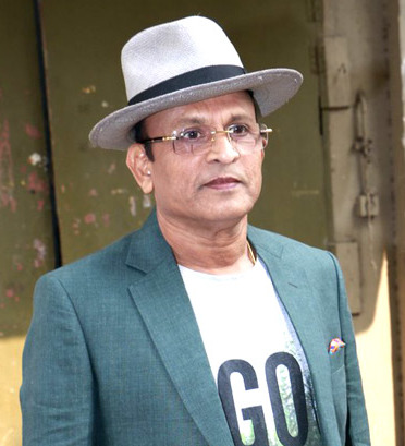 A picture of Indian actor Annu Kapoor while he's promoting for one of his films.